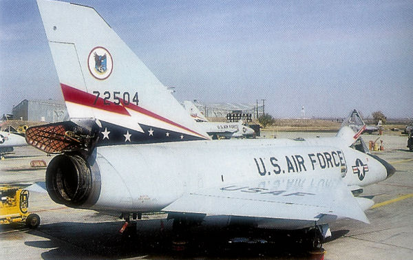 F-106 of the 84th FIS, Hamilton Air Force Base CA. Photo depicts an 84th FIS F-106 after the unit moved from Hamilton AFB to Castle AFB in 1973.